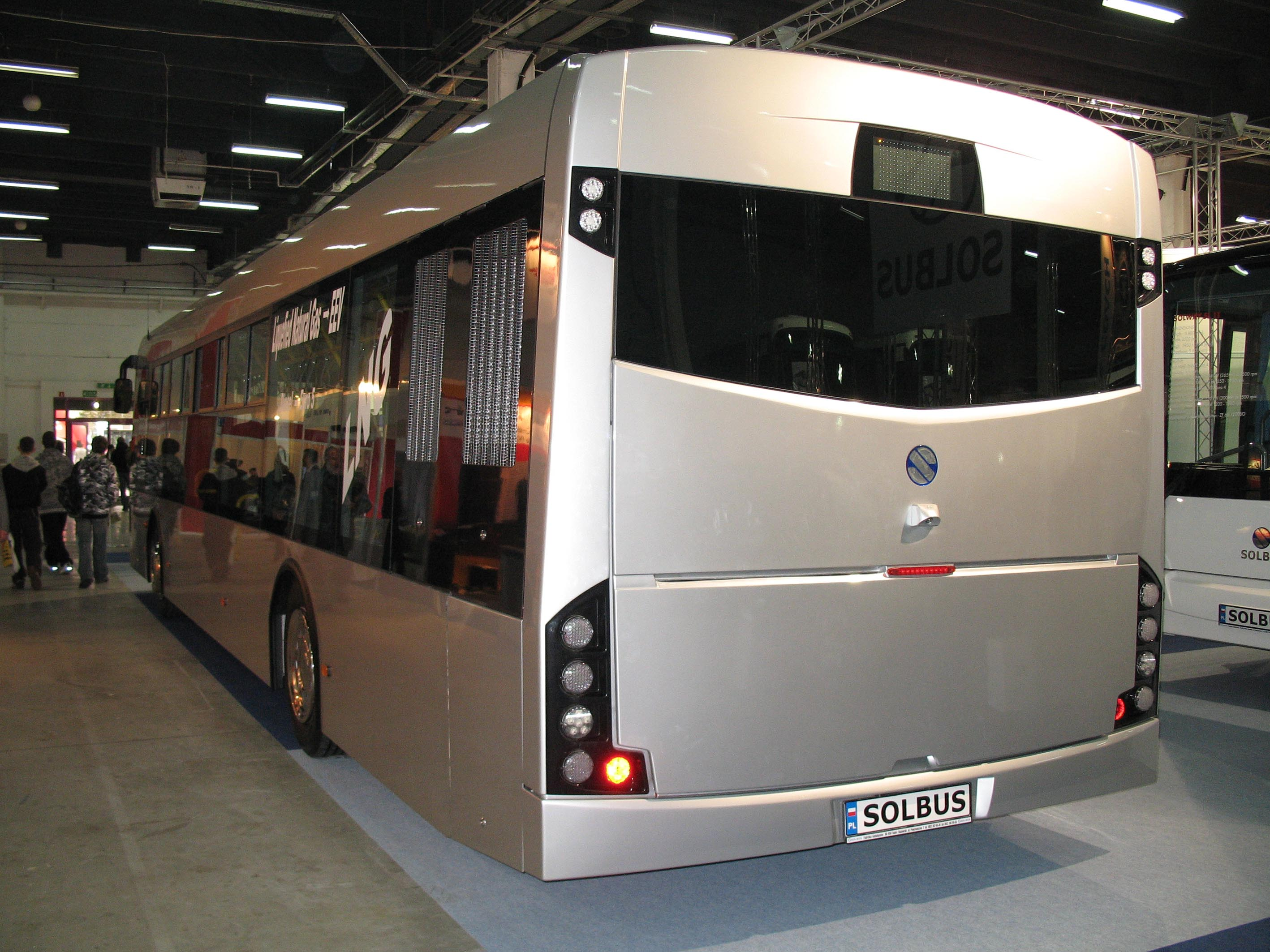 Solbus Solcity 12 LNG bus in Kielce, Poland. Built 2008. Transexpo 2008.